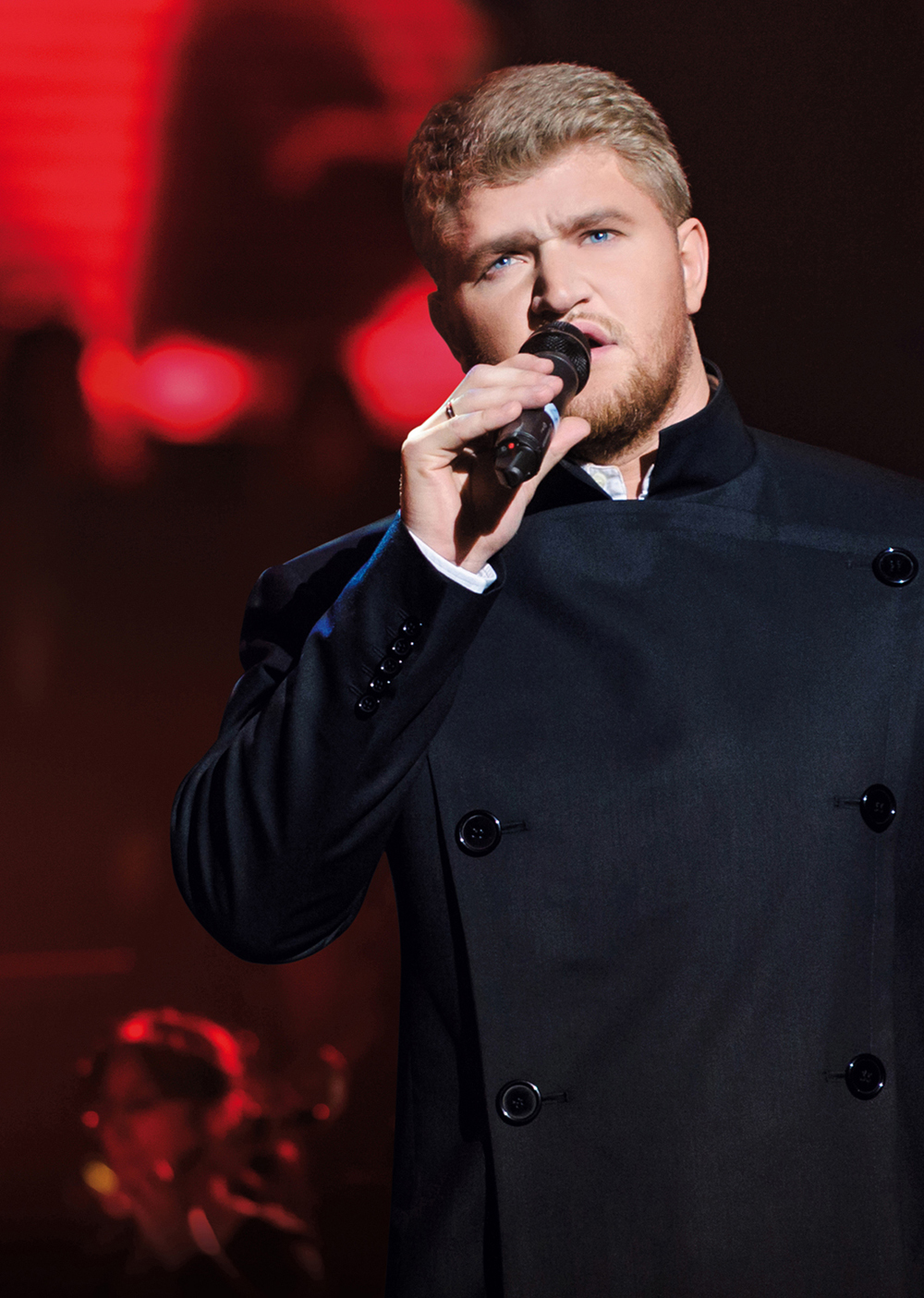 ALEXEI at Les Meilleures Chansons de Notre Dame de Paris concert on March 29th, Kiev, Ukraine